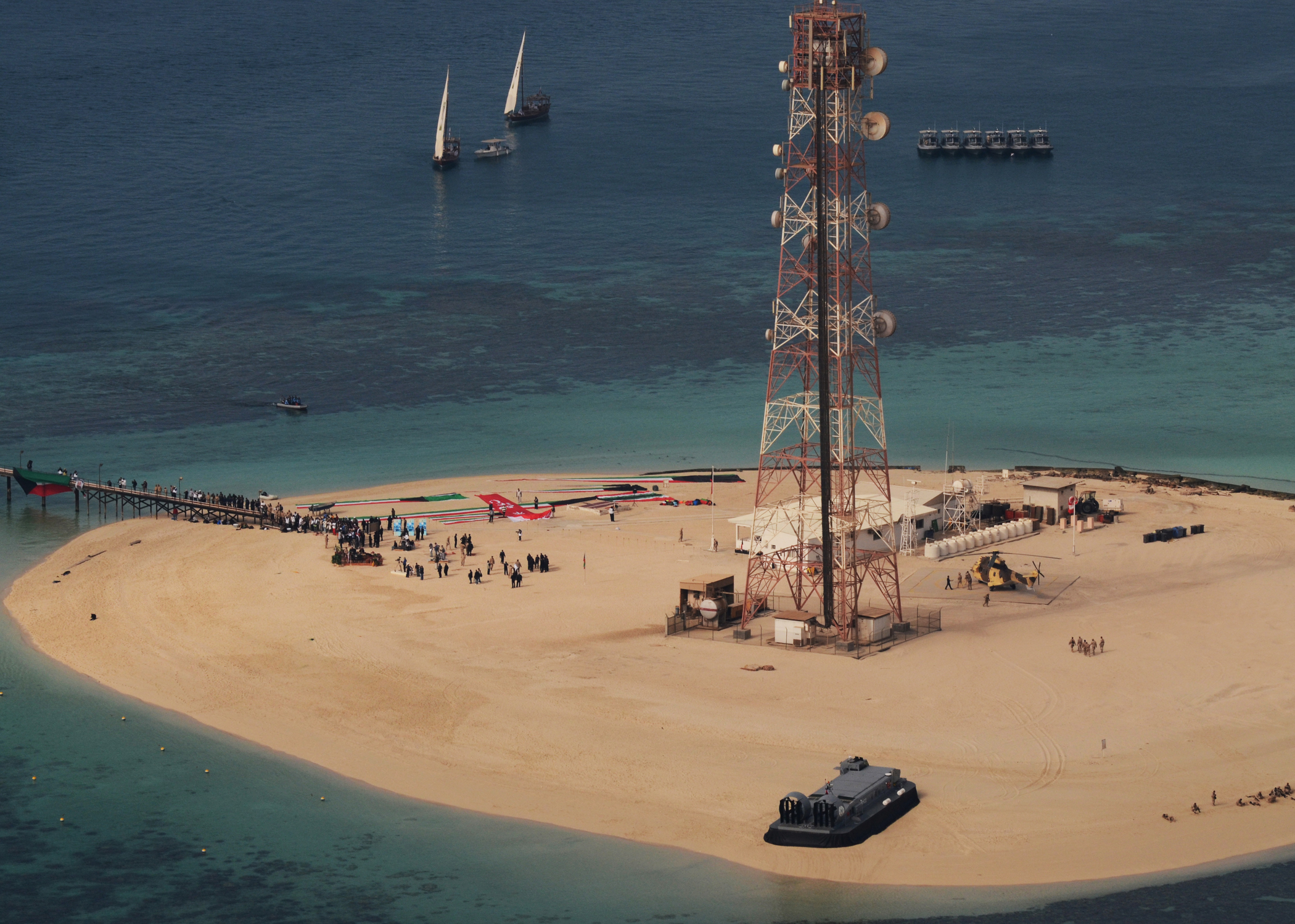 QURAH ISLAND, Kuwait (Jan. 25, 2011) Kuwaiti military personnel and dignitaries celebrate the 20th anniversary of the liberation of Qaruh Island, Kuwait. Qaruh was liberated by U.S. and Kuwaiti forces on Jan. 21, 1991, and was the first territory to be restored to Kuwaiti sovereignty from Iraqi occupation during the Gulf War. (U.S. Navy photo by Mass Communication Specialist 1st Class Elisandro Diaz/Released)